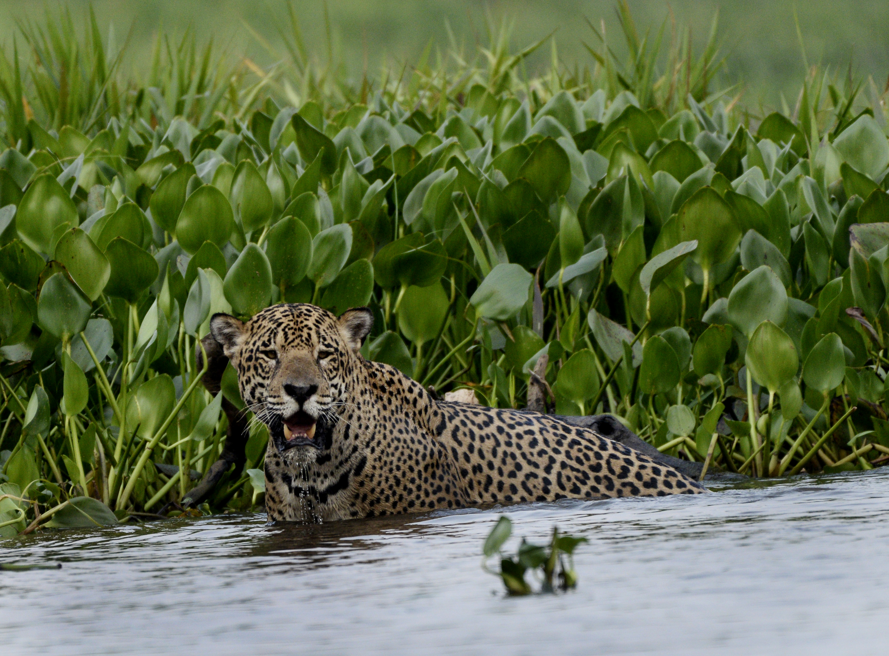 20151026 The jaguar male is searching for his female and will soon cross the river as the female have done before him. He enjoys his territory in northern Pantanal.Photo by: Jan Fleschmann This is an image of the Biosphere Reserve or a Geopark: Lake Vänern Archipelago